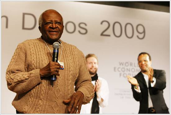 DAVOS-KLOSTERS/SWITZERLAND, 30JAN09 - Archbishop Emeritus, Desmond Tutu speaks to the students during a special 'Dignity Day' session at the Swiss Alpine School at the Annual Meeting 2009 of the World Economic Forum in Davos, Switzerland, January 30, 2009.. . Copyright by World Economic Forum.